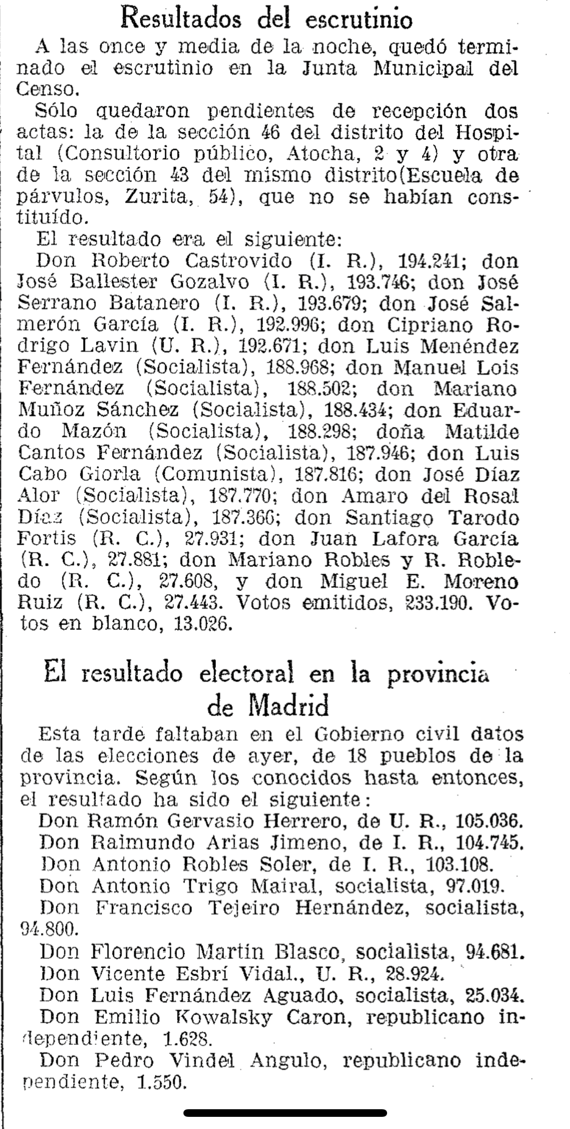 Abstract from La Vanguardia from 28.04.1936 with the electoral results in Madrid province